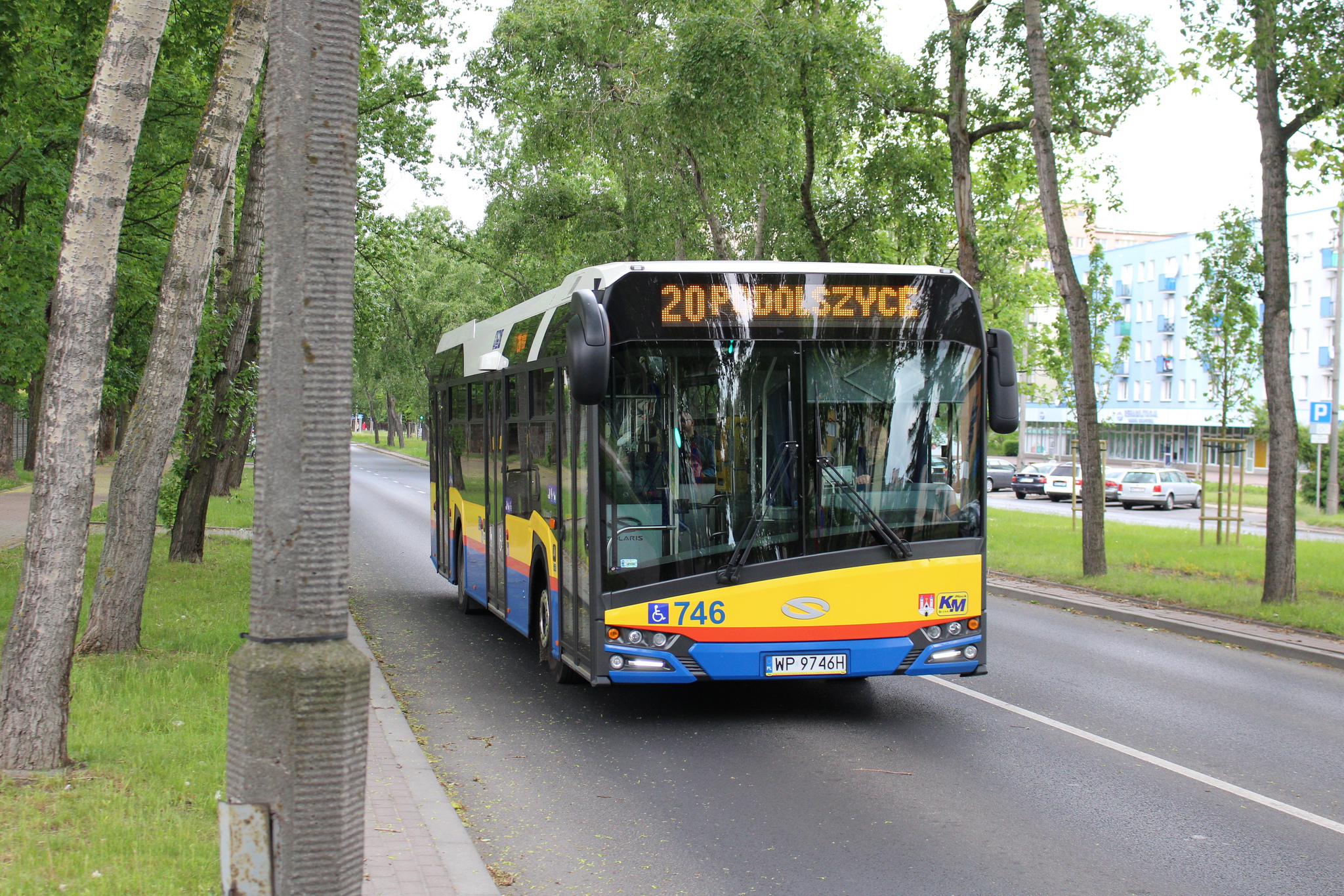 One of 3 Solaris Urbino 12 buses purchased by KM Płock in 2015.